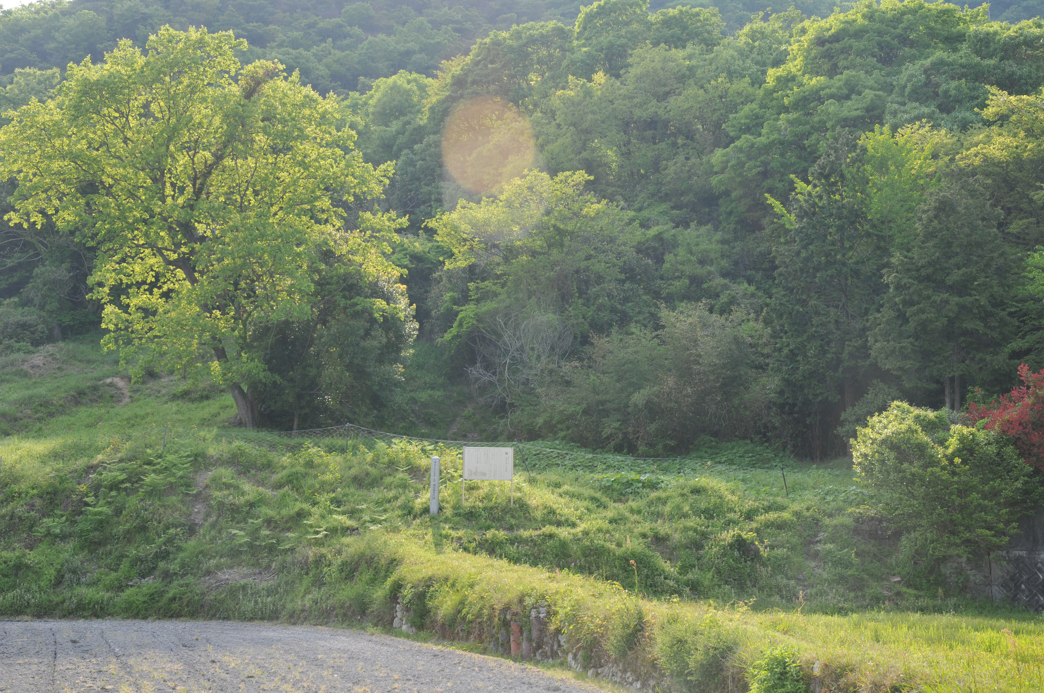 The site of Inbe Nishi Ōgama